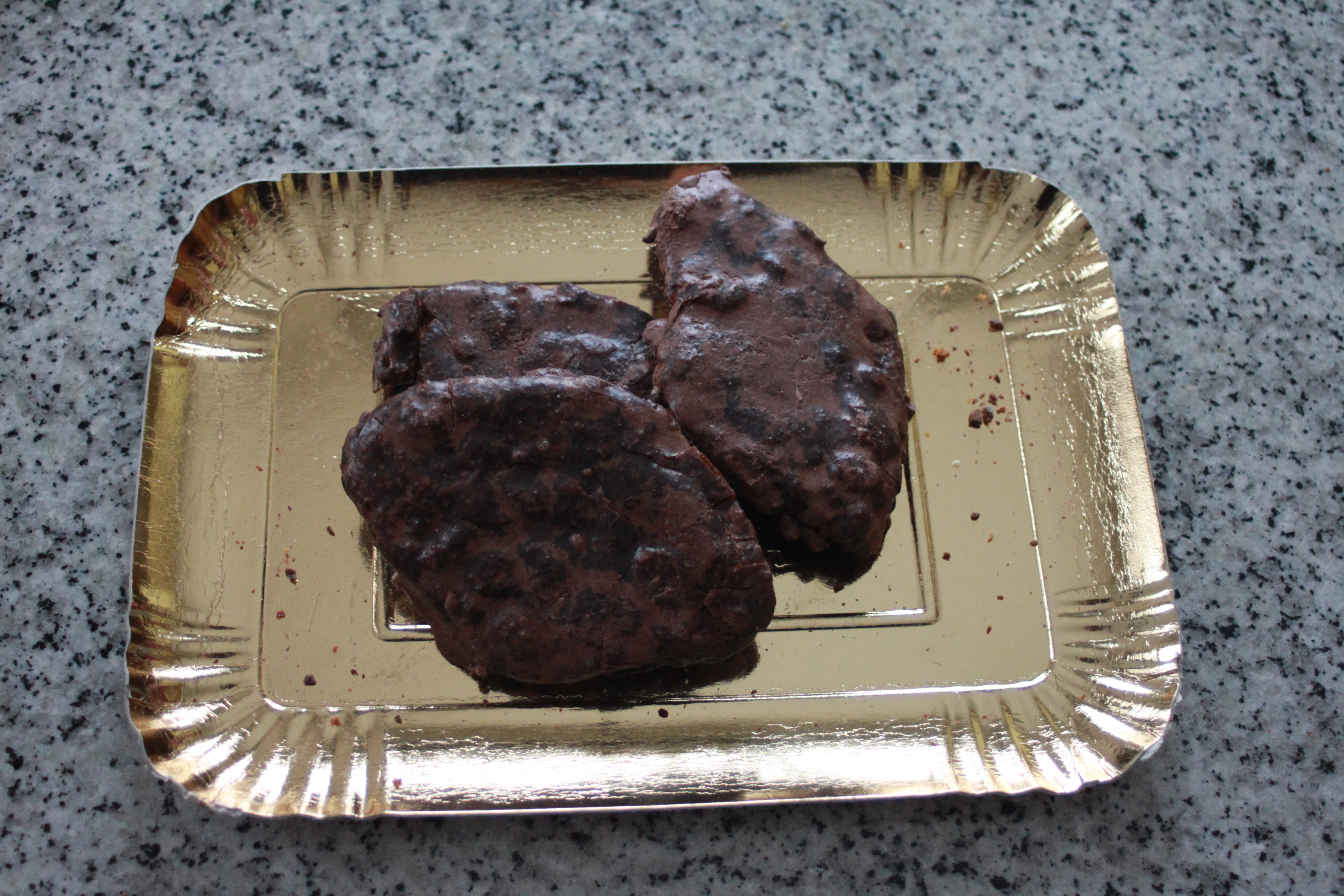 calabrian sweet: Pitta di San Martino